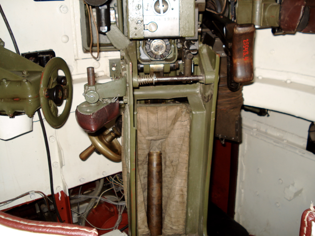 Soviet T-26 model 1933 tank, in Finnish markings, displayed in Finnish Tank Museum (Panssarimuseo) in Parola. This particular tank has been restored to drivable condition. View of turret interior. Photo taken on July 14, 2006. Source: Photo by me, User:Balcer.